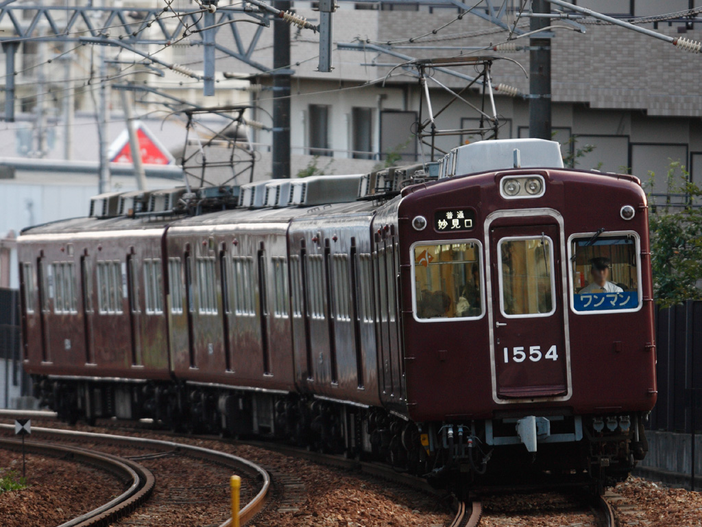 Nose Electric Railway 1500 Series